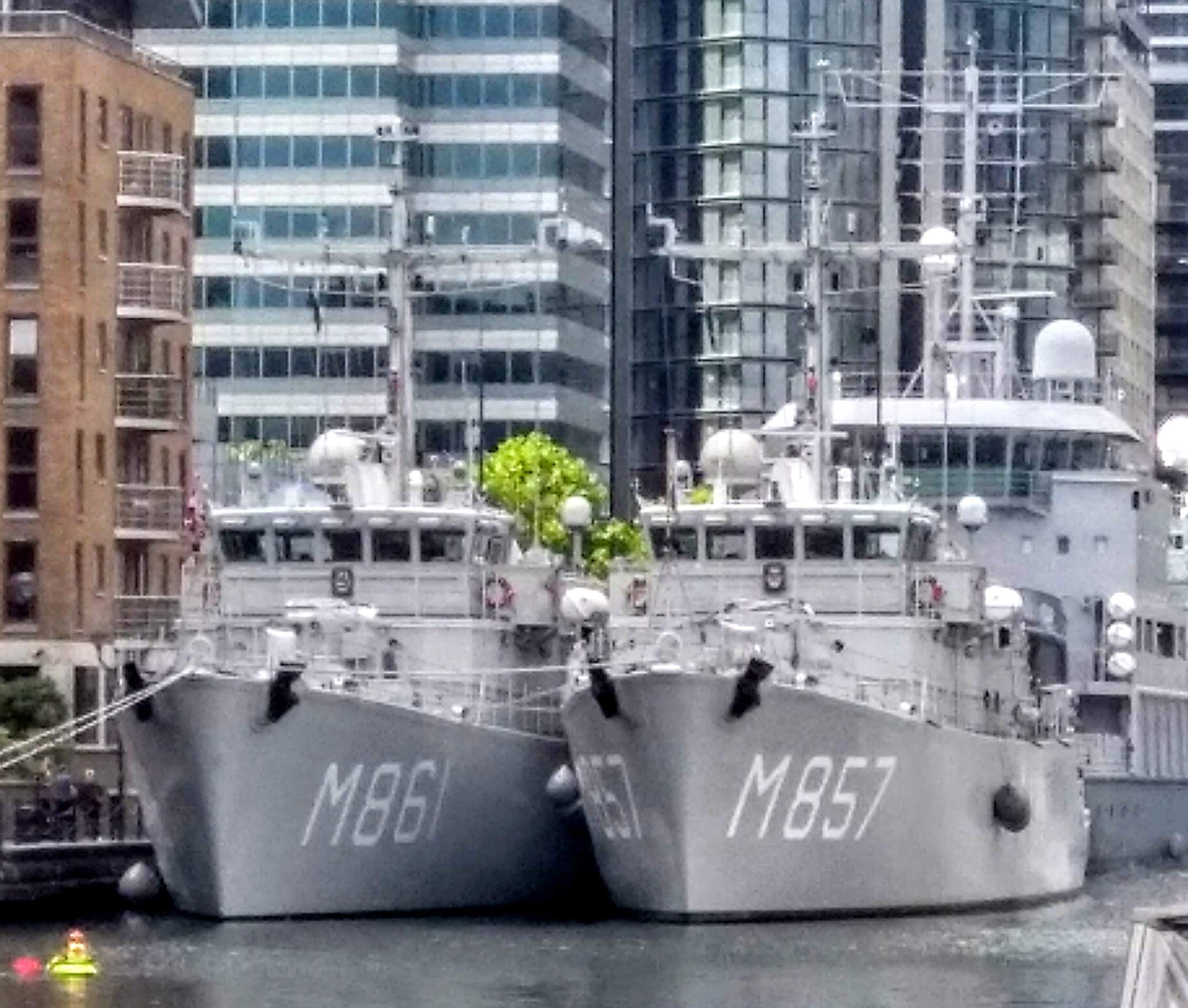 The Koninklijke Marine Alkmaar-class minehunters Zr Ms Makkum (M857) and Zr Ms Urk (M861) moored at South Quay during a visit to London in June 2019